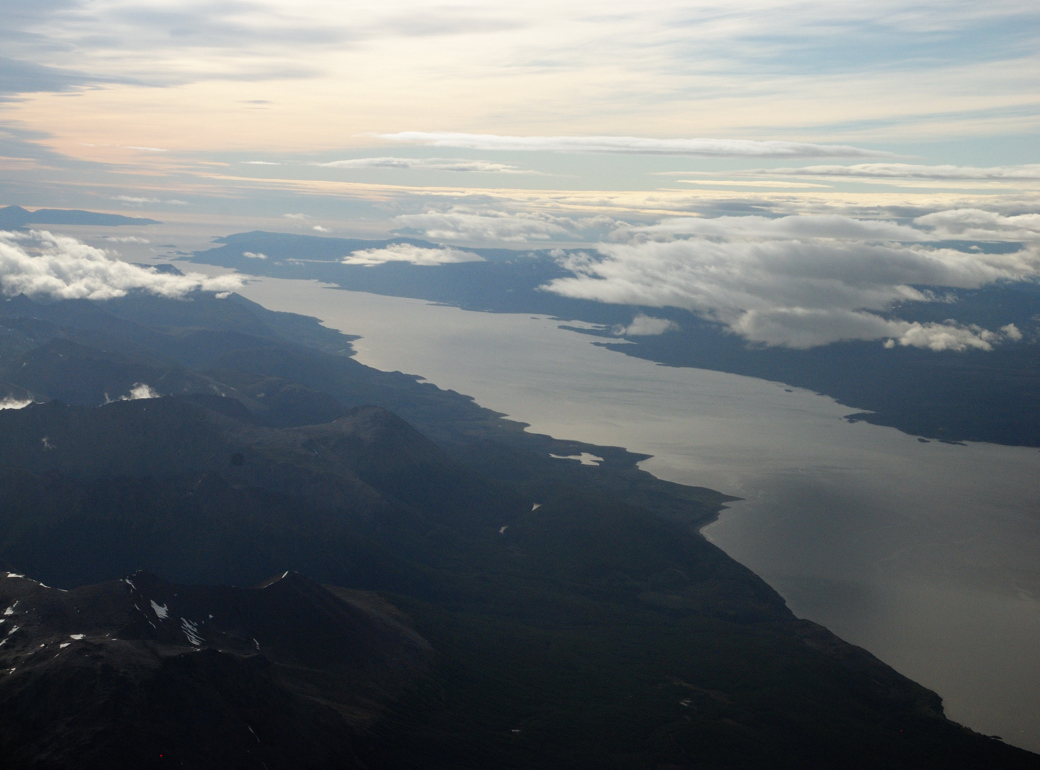 Beagle channel (East) above Ushuaia